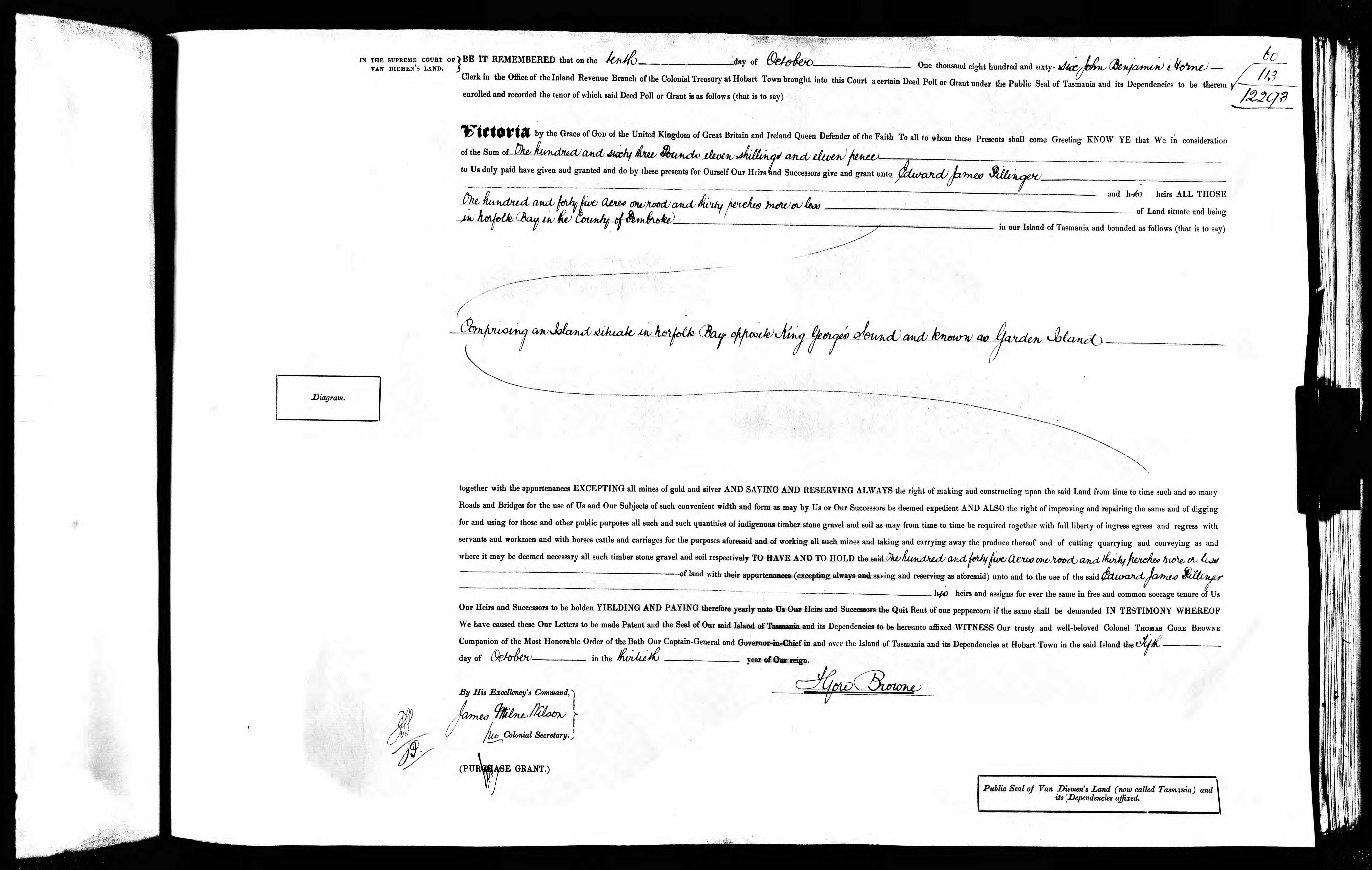 Smooth Island - Edward Pillinger's land title deed